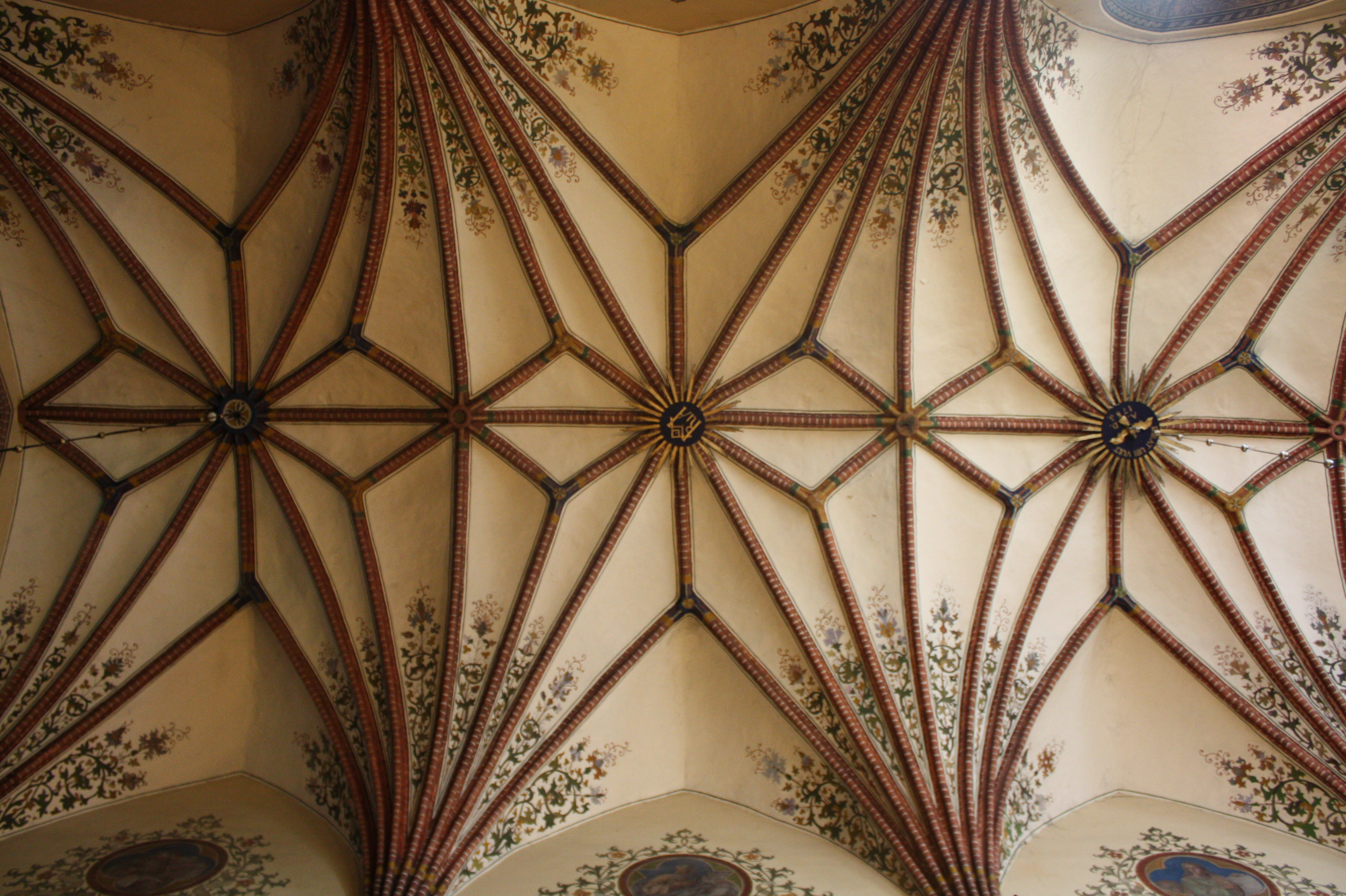 Tczew, Holy Cross Church